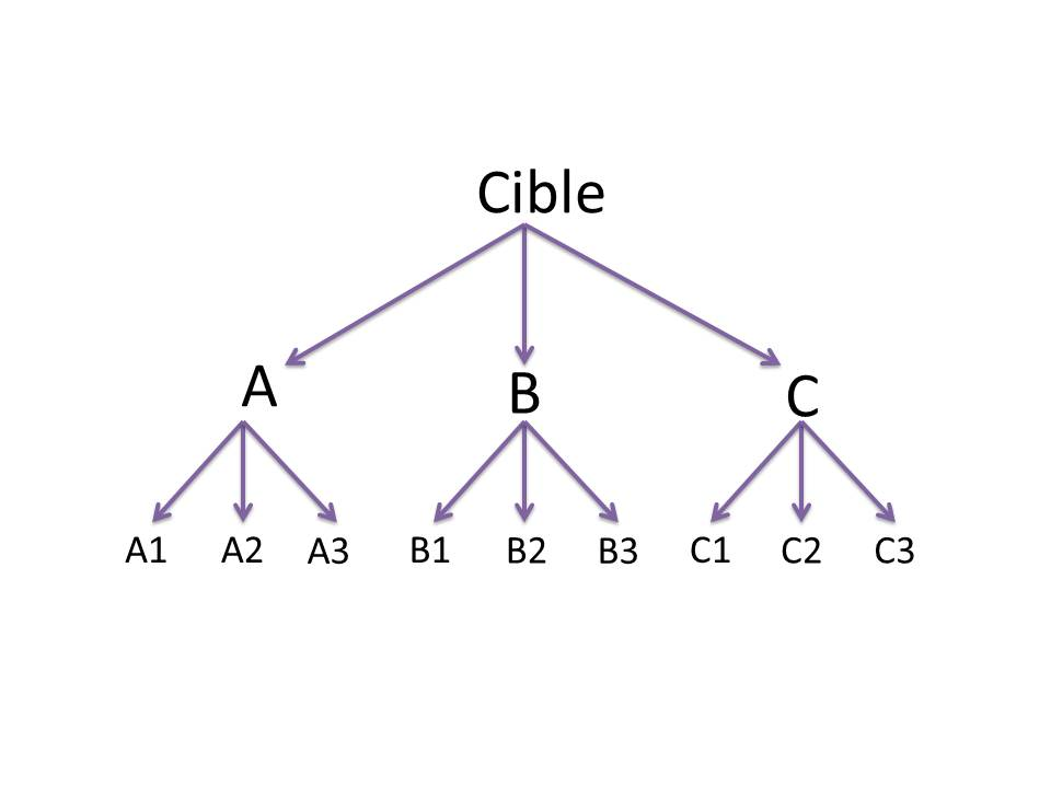 Hierarchy. Decomposition of a target.